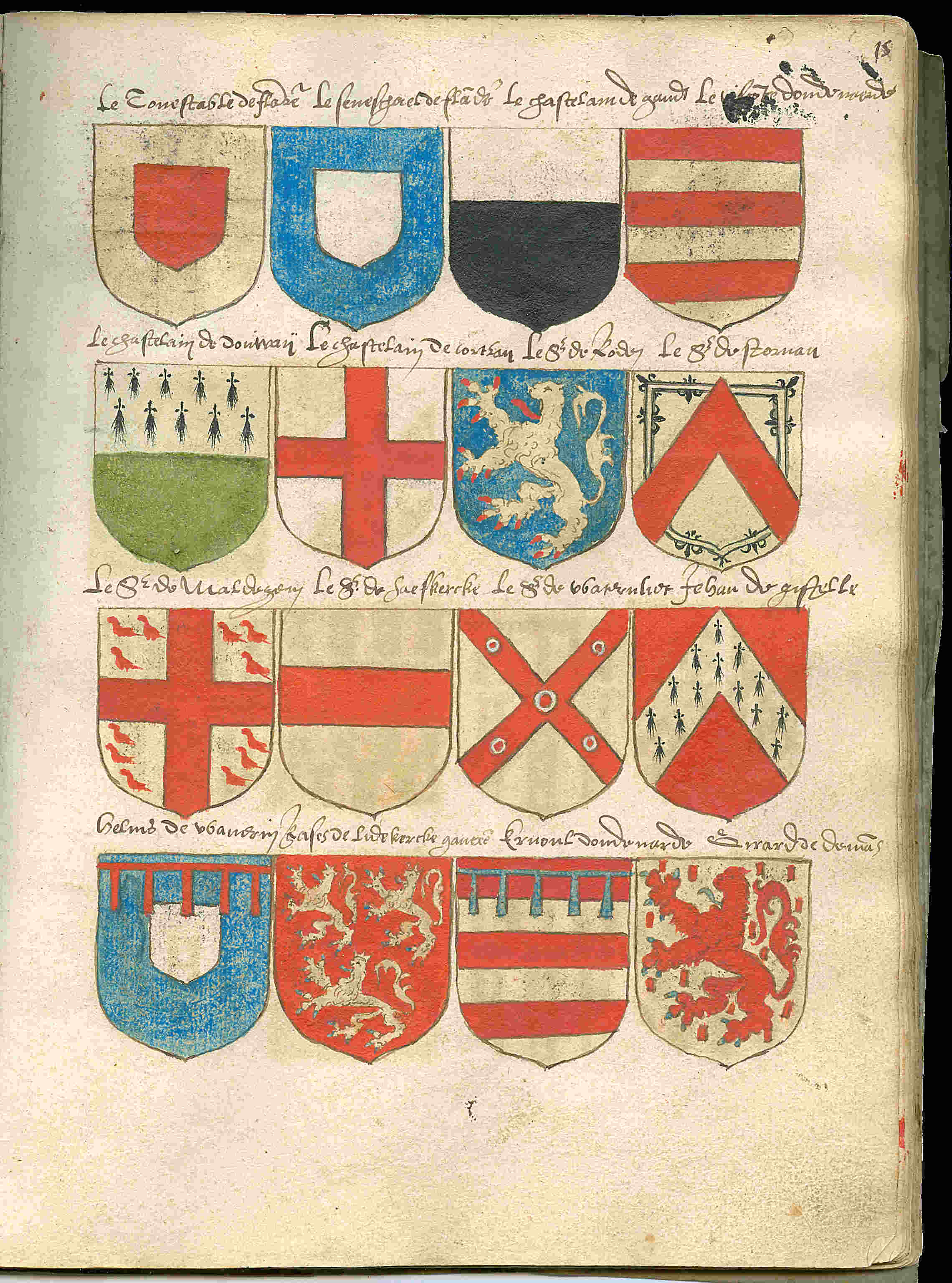 Page 15 from a copy of the Beyeren armorial / Wapenboek Beyeren from ca. 1600. The original Beyeren armorial from 1405 can be viewed at the website of the KB